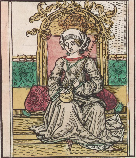 Mary of HUngary